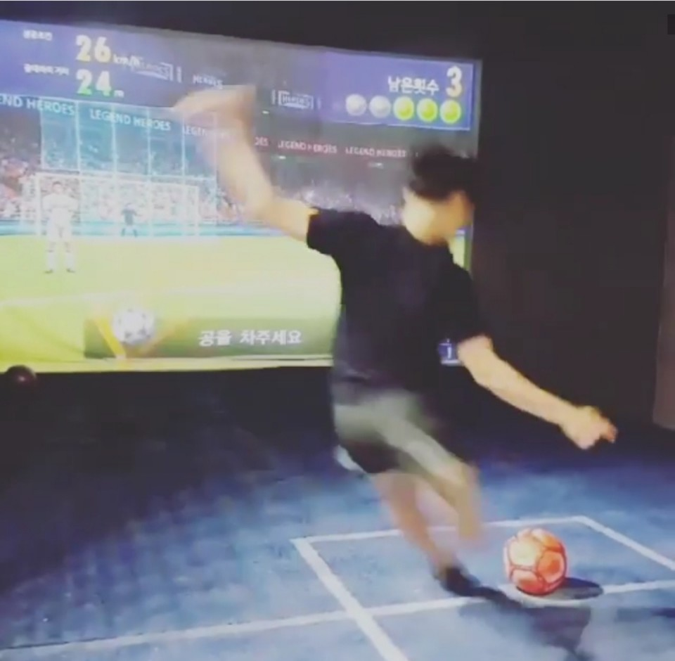 It is a complete view of the screen soccer stadium.